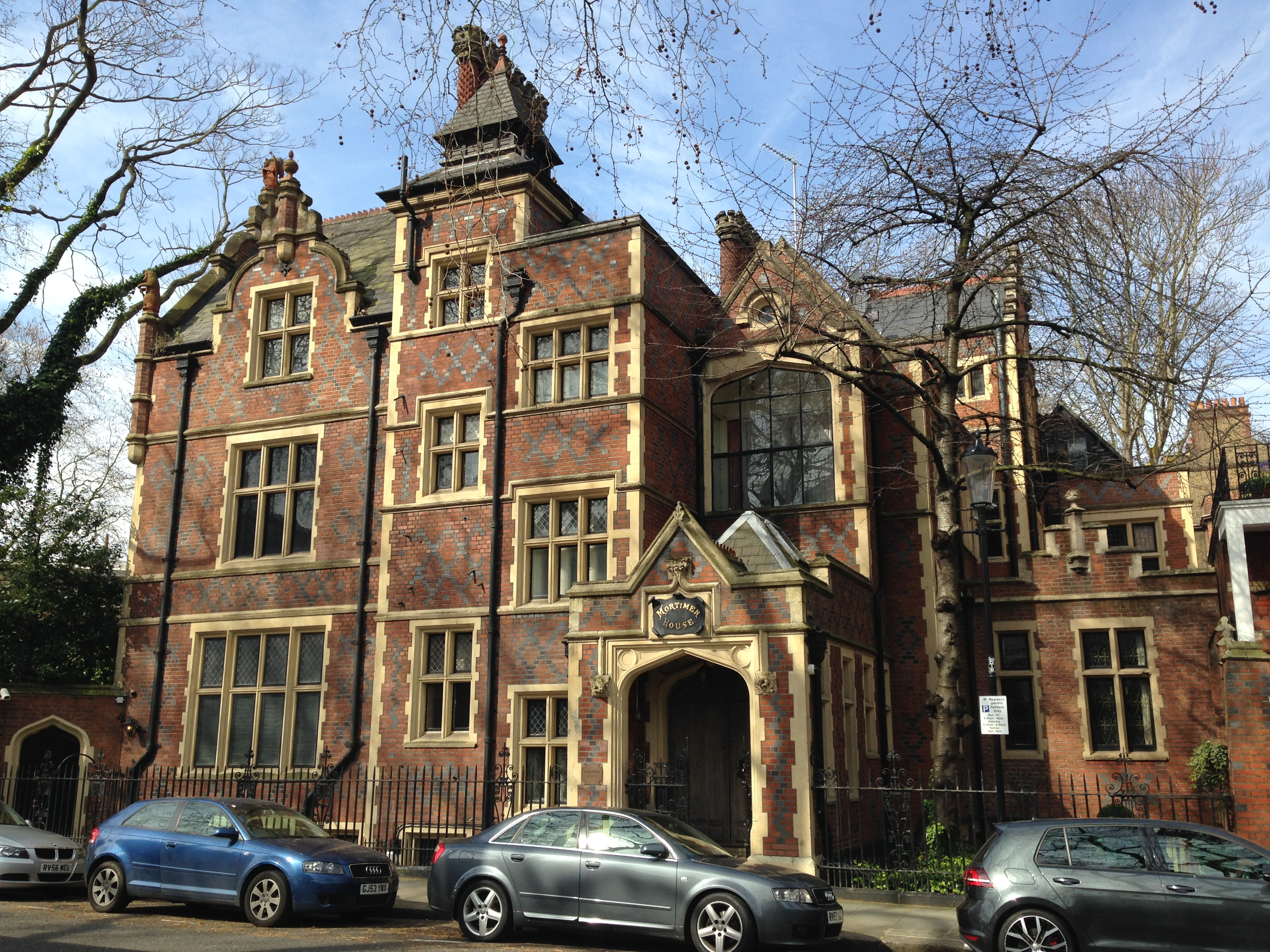 Mortimer House on Egerton Gardens Wikidata has entry Q23891220 with data related to this item.